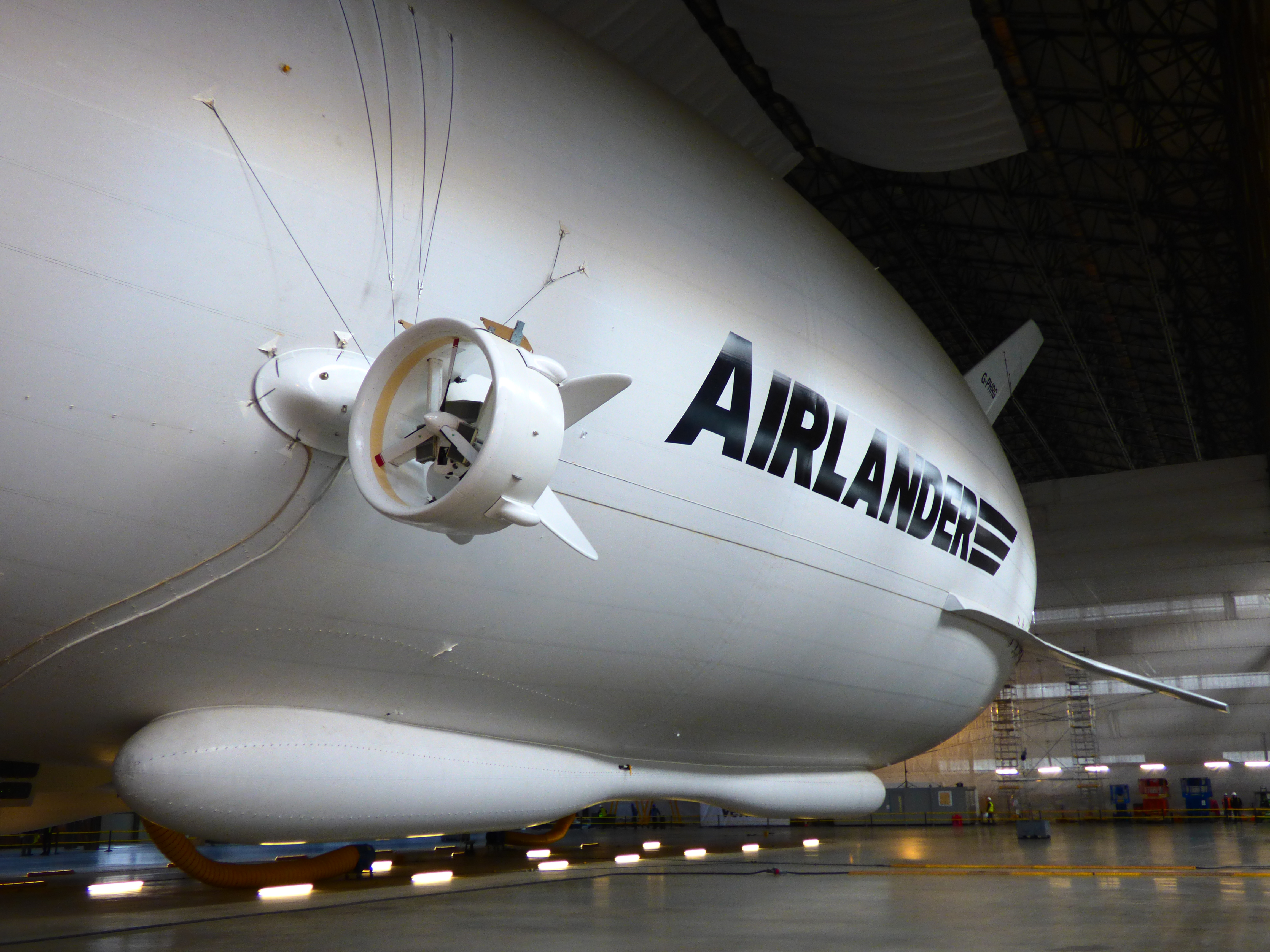 I took this picture of the completed Airlander 10 floating in Cardington Hangar on 21st March 2016.